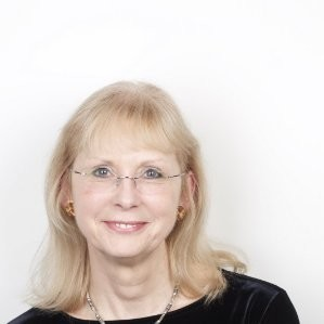 Her face, at a seminar.